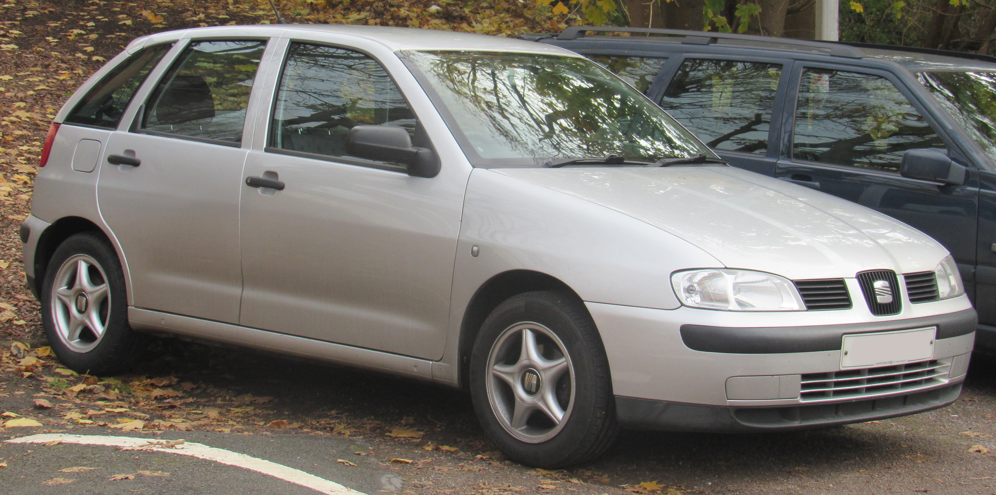 2001 SEAT Ibiza S 1.4 Taken in Leamington Spa